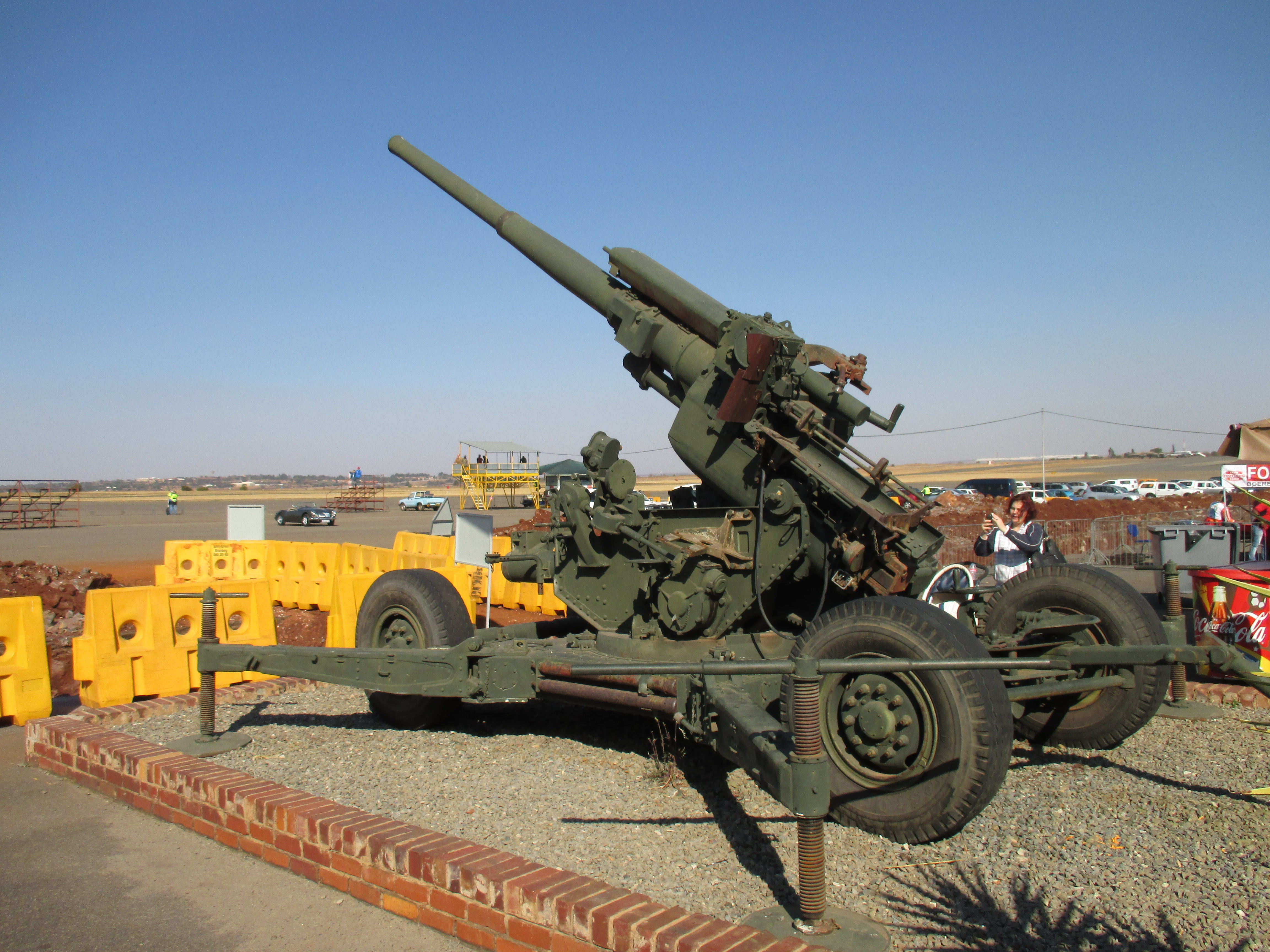 Description: Plinthed QF 3.7-inch Heavy Anti-aircraft gun at AFB Swartkops.